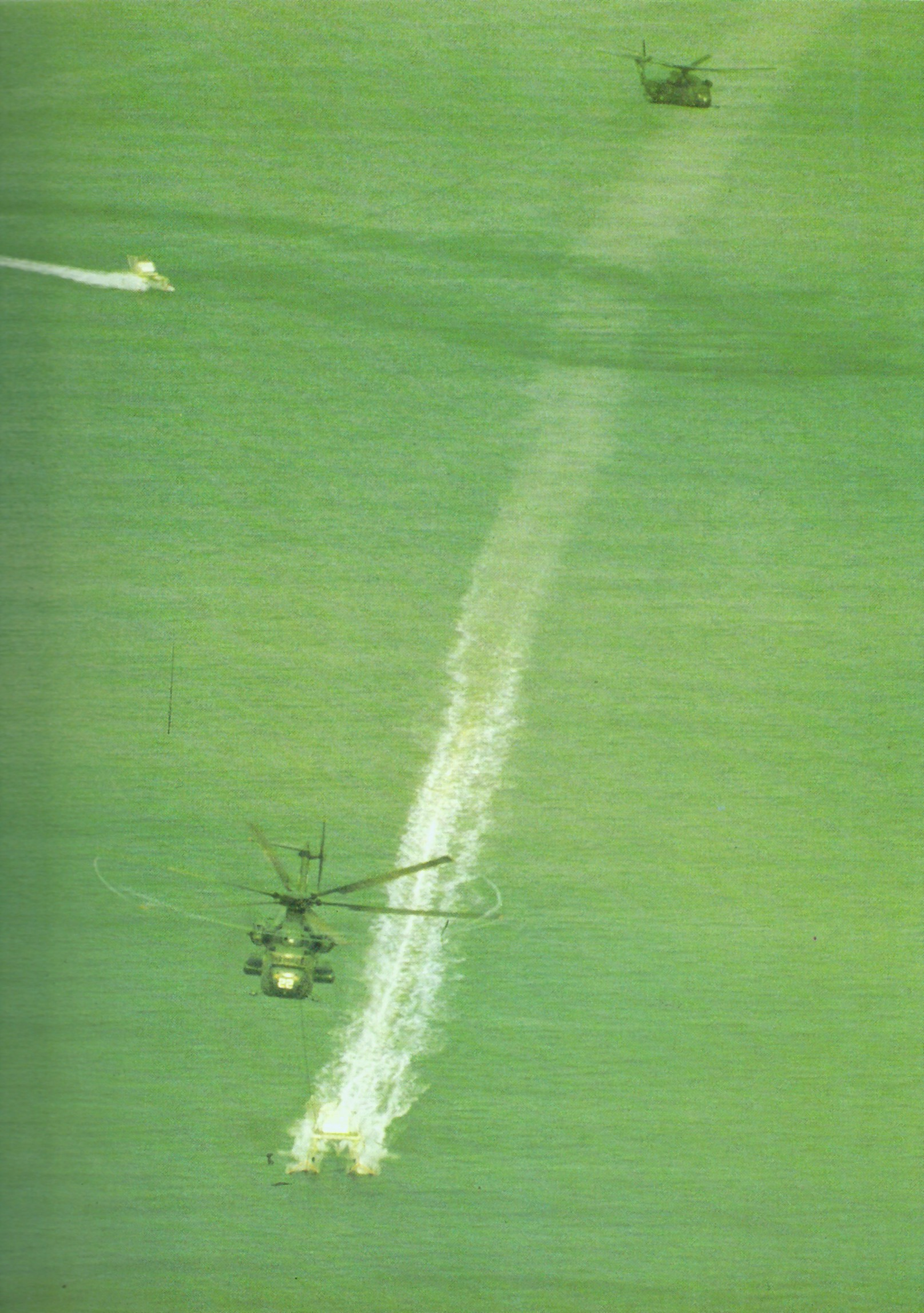 Two U.S. Navy Sikorsky RH-53D Sea Stallion helicopters of helicopter mine countermeasures squadron HM-12 Sea Dragons sweeping the Suez Canal or one of the lakes during "Operation Nimbus Moon" in 1974.